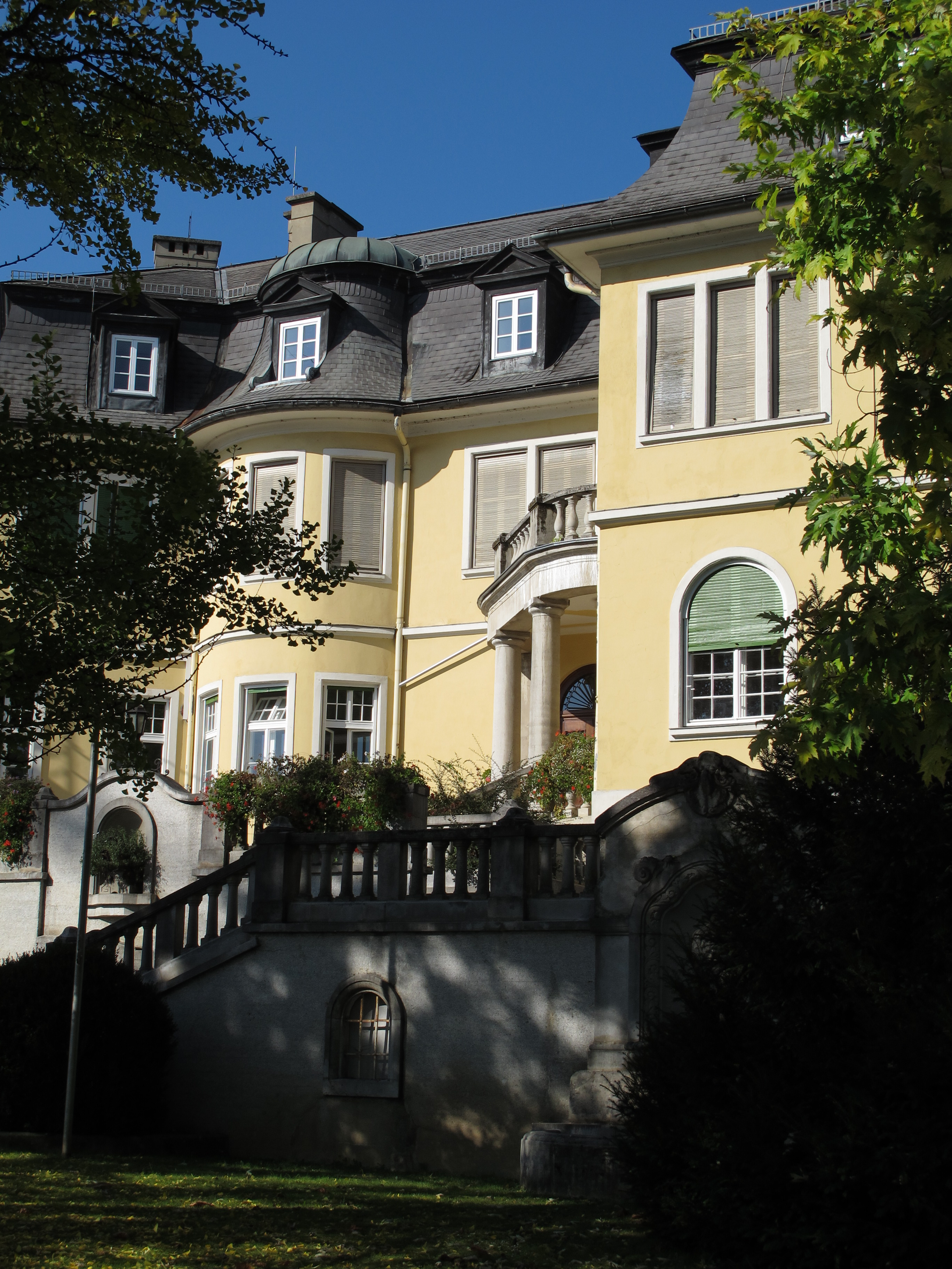 Landwirtschaftliche Fachschule Hatzendorf